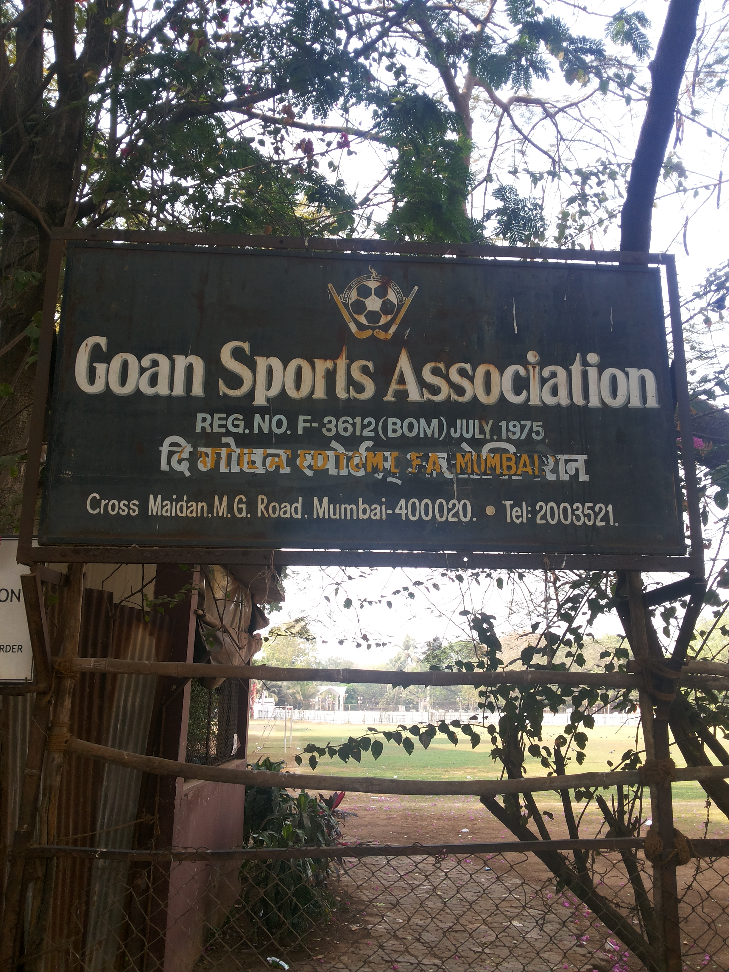 This is the office of the Goan Sports Association at Cross Maidan in Mumbai.